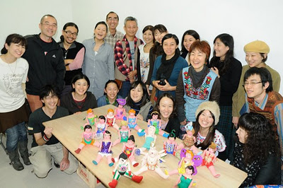 Participants with the Miss Lupita project in Japan PHOTO BY Etsuko Ito